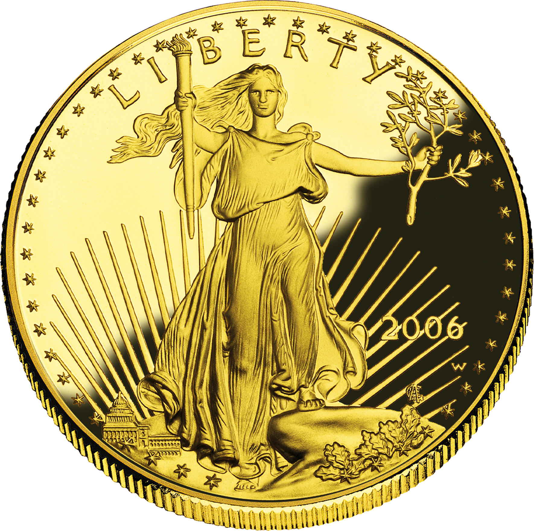 Removed background, cropped, and converted to PNG with Macromedia Fireworks. This image depicts a unit of currency issued by the United States of America. If Fraudulent use of this image is punishable under applicable counterfeiting laws. As listed by the United States Secret Service at money illustrations, the Counterfeit Detection Act of 1992, Public Law 102-550, in Section 411 of Title 31 of the Code of Federal Regulations (31 CFR 411), permits color illustrations of U.S. currency provided:1. The illustration is of a size less than three-fourths or more than one and one-half, in linear dimension, of each part of the item illustrated;2. The illustration is one-sided; and3. All negatives, plates, positives, digitized storage medium, graphic files, magnetic medium, optical storage devices, and any other thing used in the making of the illustration that contain an image of the illustration or any part thereof are destroyed and/or deleted or erased after their final use. Certain coins contain copyrights licensed to the U.S. Mint and owned by third parties or assigned to and owned by the U.S. Mint [1]. For the United States Mint circulating coin design use policy, see [2]; for the policy on the 50 State Quarters, see [3]. Also: COM:ART #Photograph of an old coin found on the Internet